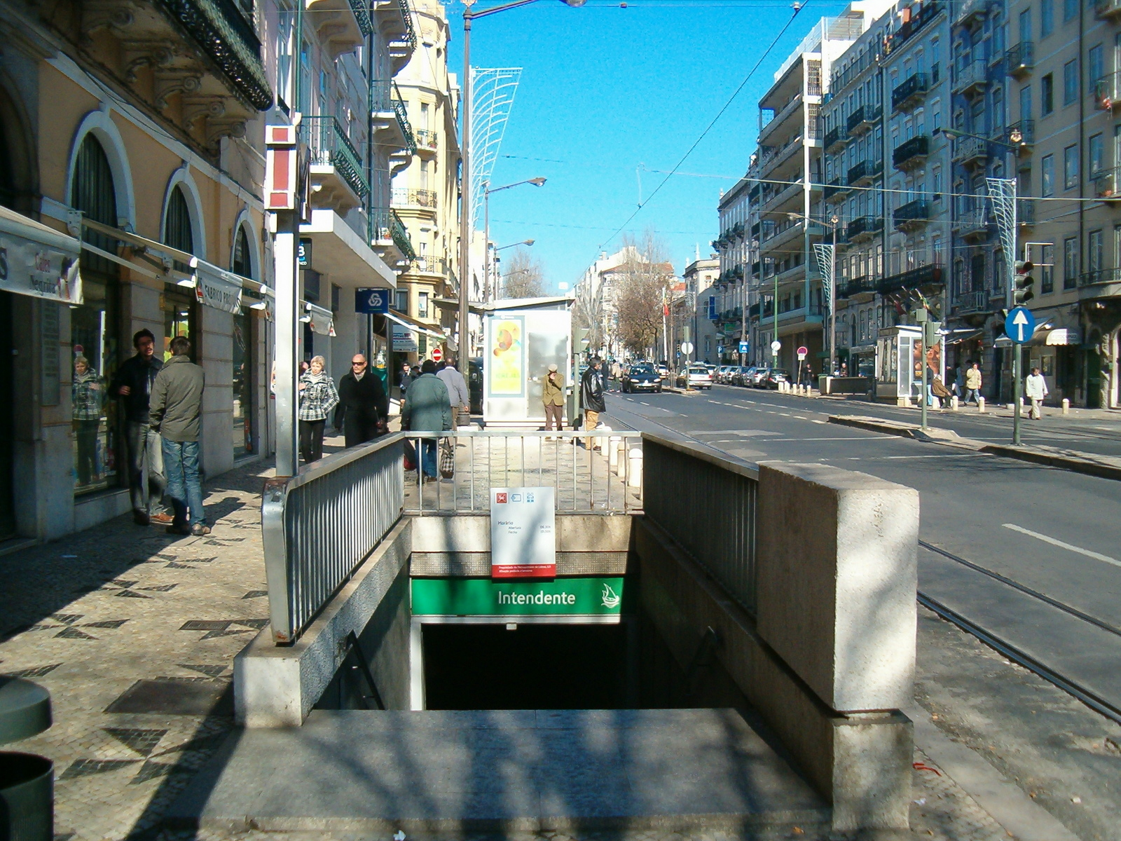 Metro station Intendente (Lisboa)